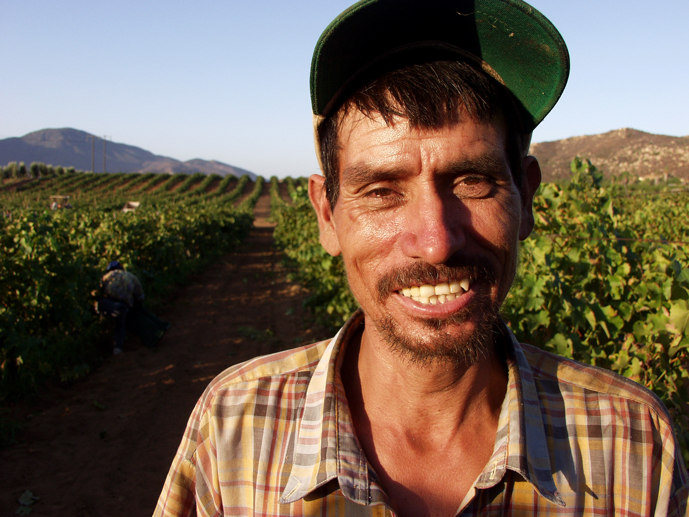 Vineyard worker at Guadalupe Valley, Baja California, Mexico, where 95% of Mexican wines are produced.